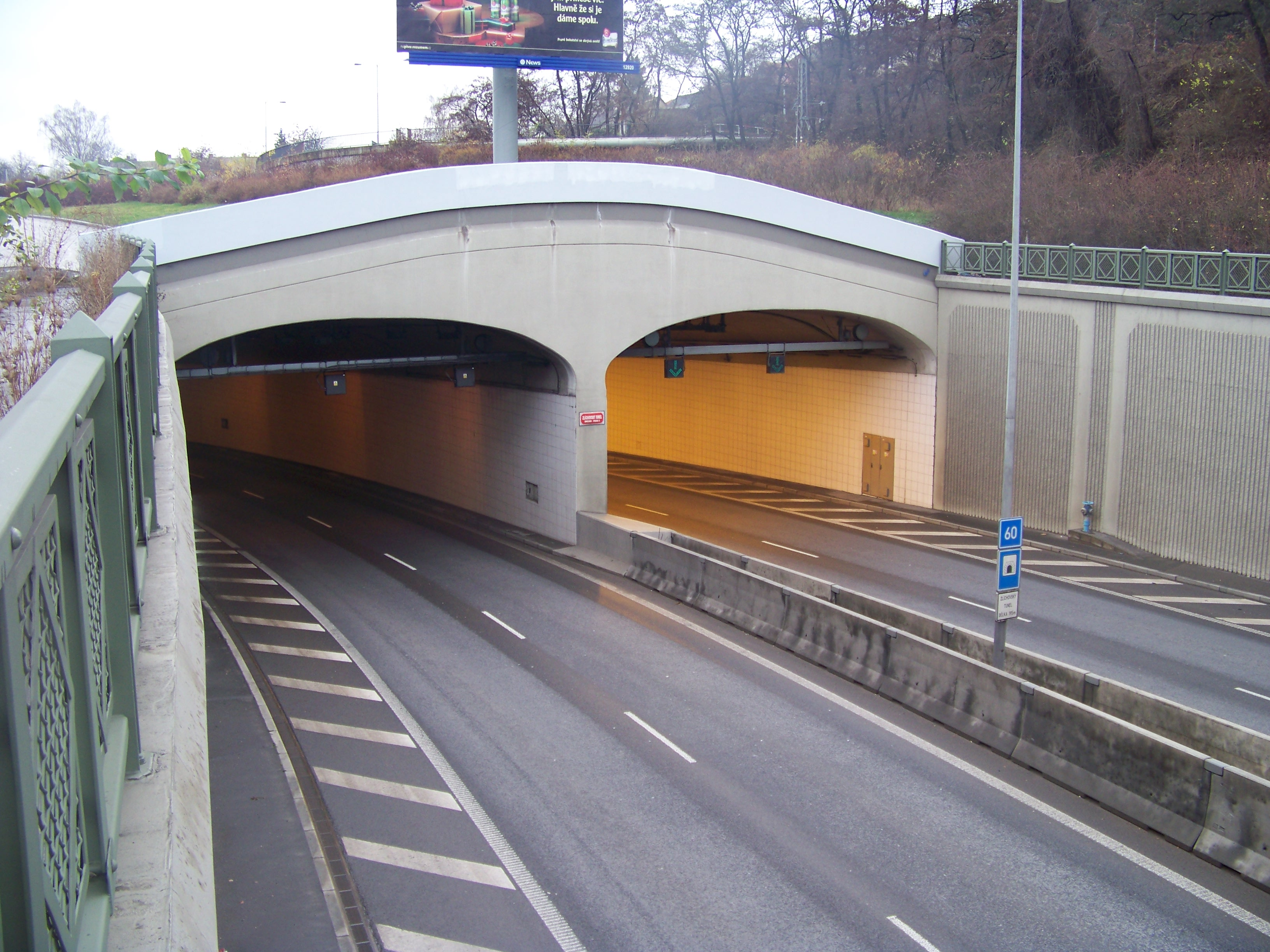 Prague, Smíchov, the Czech Republic. Zlíchov Tunnel. - Google Maps - Google Earth